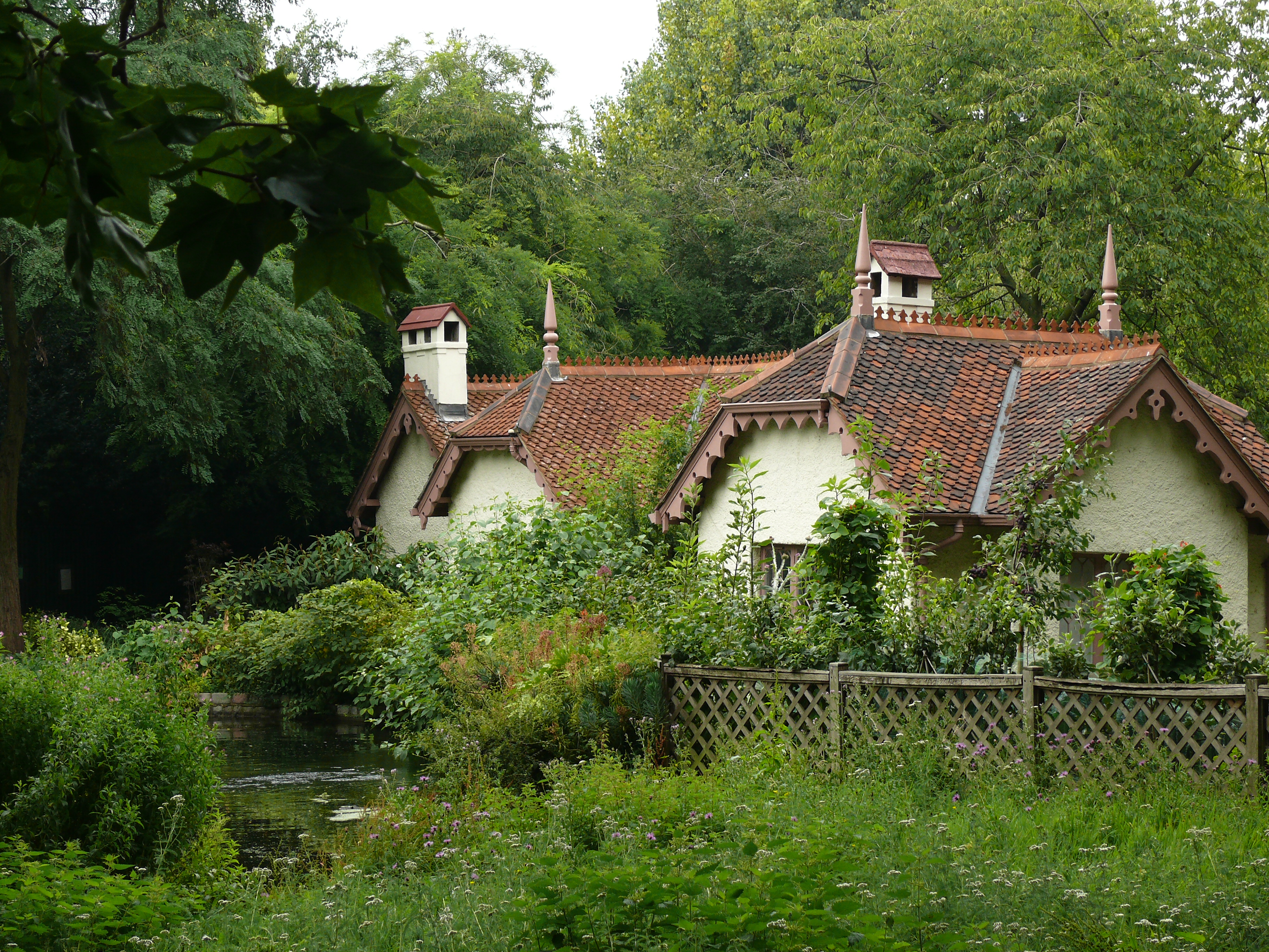 Cottage on Duck Island in St James's Park in London